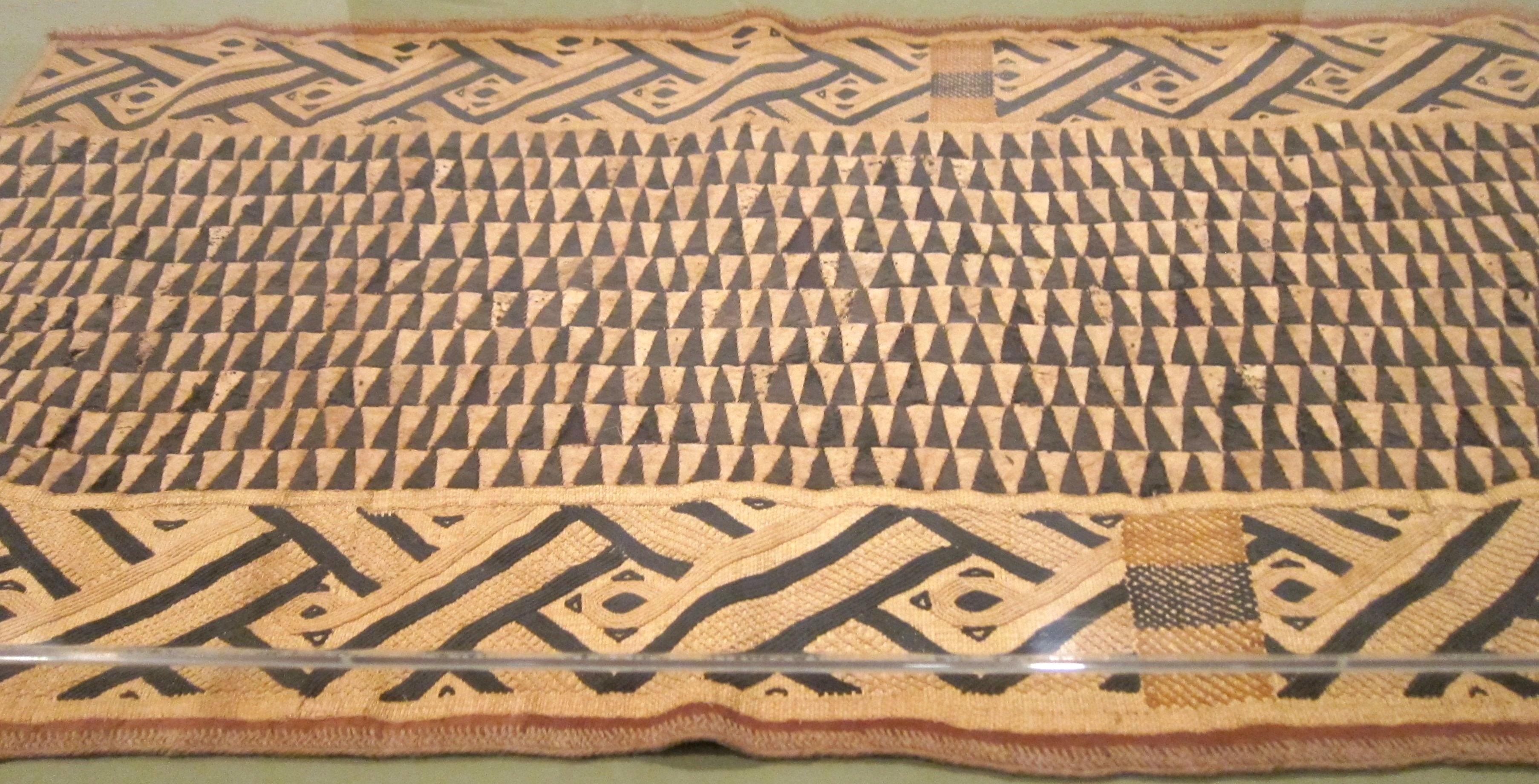 Woman's ceremonial overskirt, Democratic Republic of the Congo, Bushong people, 20th century, raffia palm fiber, bark cloth, plain weave, embroidery, beaten fiber, Honolulu Museum of Art. Central panel is composed of triangles of light and dark bark cloth stitched together.